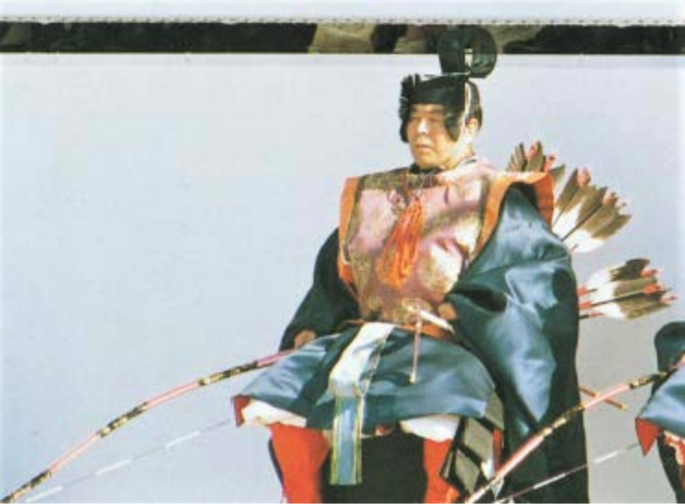 A gatekeeper wearing a Military-officer-costume.